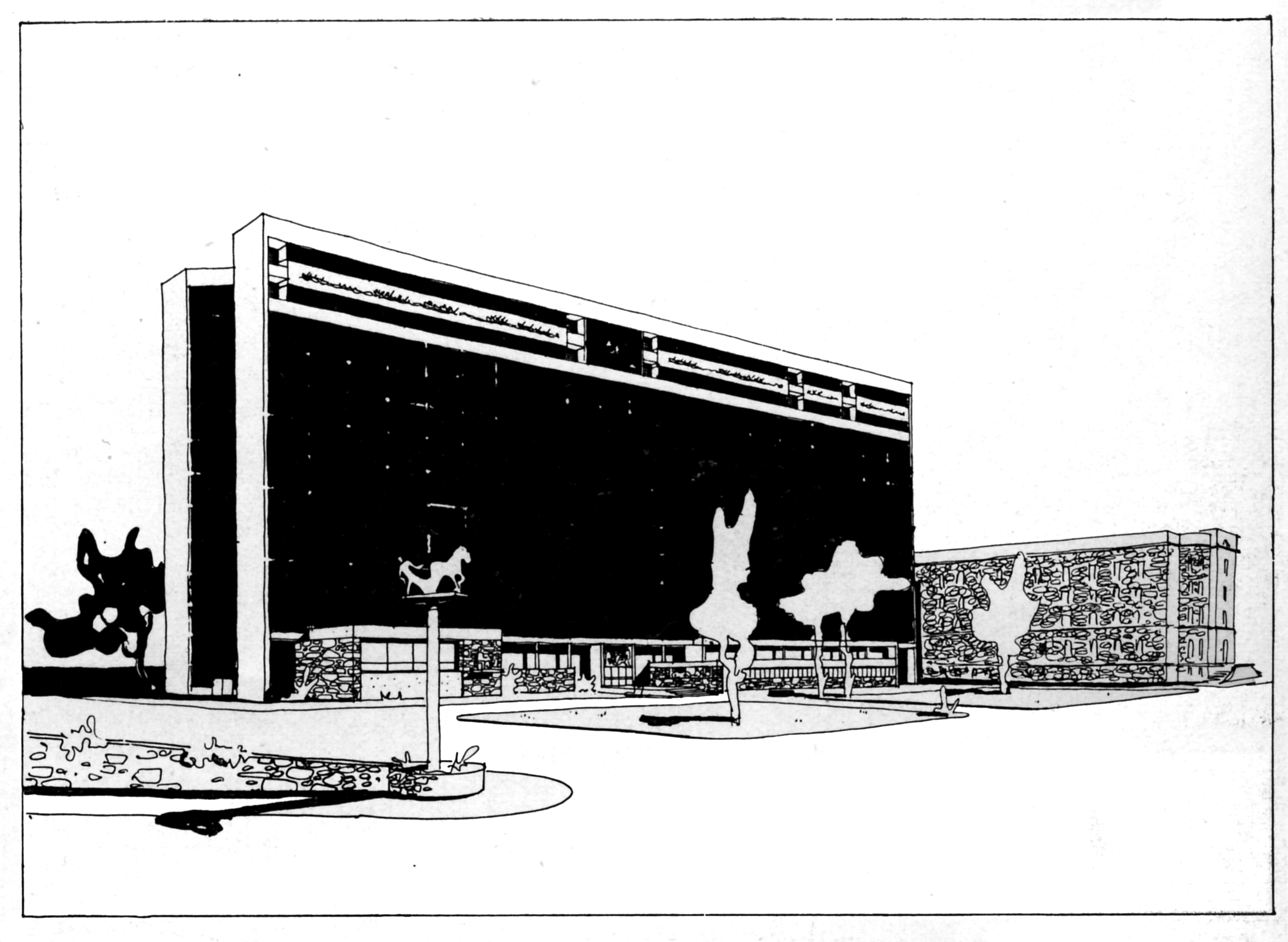 Perspective drawing of proposed government building in Oslo, competion entry by architect Erling Viksjø, 1940Norsk bokmål: Perspektivtegning av forslag til regjeringsbygning i Oslo, konkurranseutkast av arkitekt Erling Viksjø, 1940